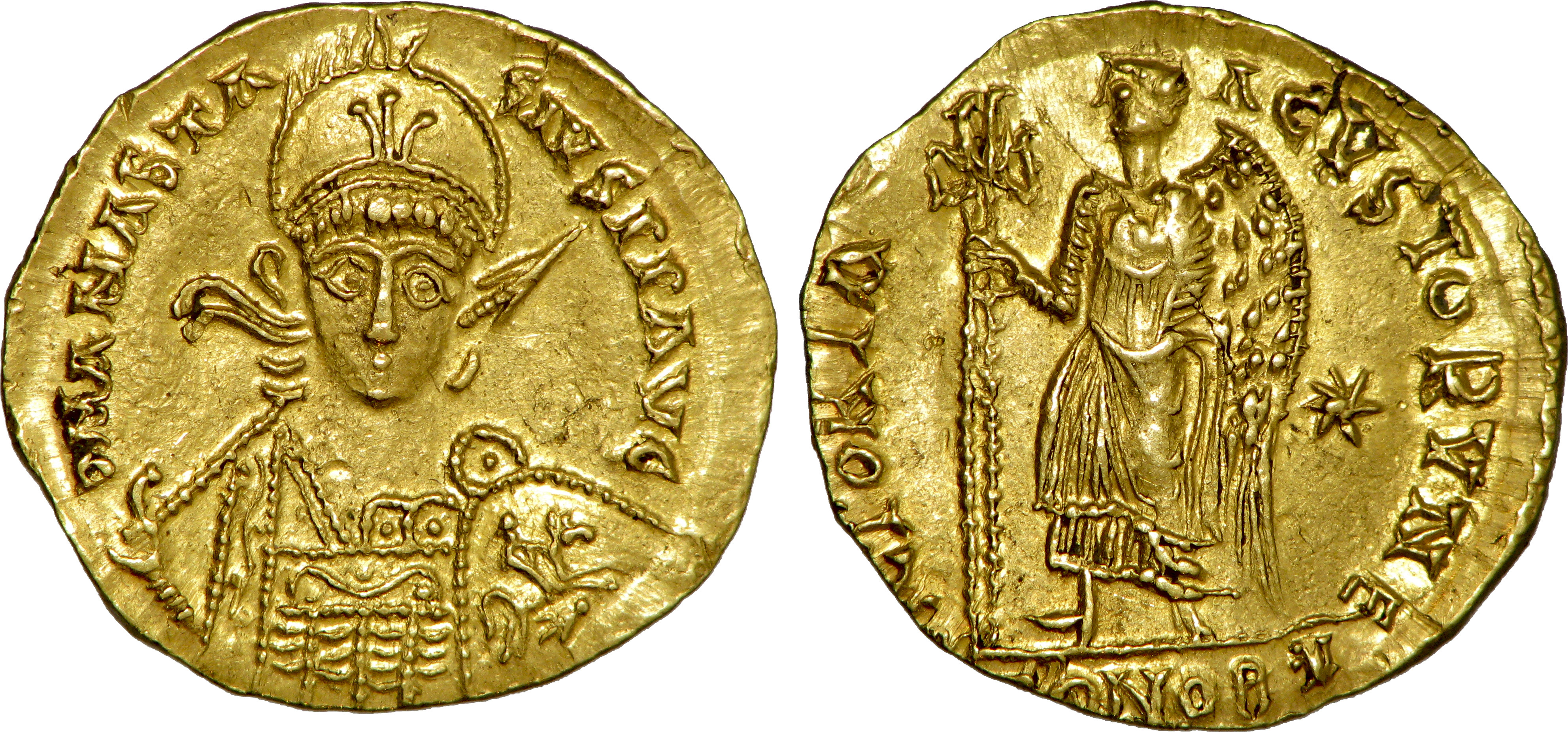 Country: Gaul; Gold coin; Diameter: 20 mm; Coin axis: 5h; Weight: 4.37 g; Degree of rarity: R3. Obverse titulation: D N ANASTA-SIVS PP AVG. Obverse description: Helmeted, diademed and armored bust of Anastase from the front, holding in his right hand the spear placed on the shoulder and from the left a shield decorated with a jumper leaping to the right (N'a); beaded tiara. Obverse translation: “Dominus Noster Anastasius Perpetuus Augustus”, (Our lord Anastasian perpetual august). Reverse titulation: [V]ICTORIA - AVGVSTORVN E/ -|*//CONOB(EV). Reverse description: Victory standing on the left, holding a long cross with the right hand; star with seven spokes in the field on the left. Reverse translation: “Victoria Augustorum”, (The Victory of the Augusts).